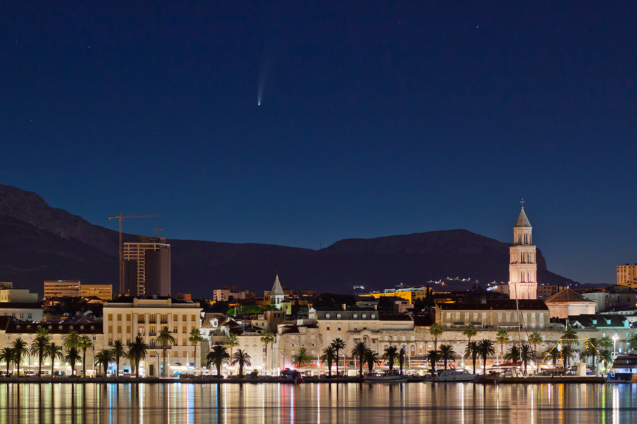 Comet C/2020 F3 (NEOWISE) over Split, Croatia